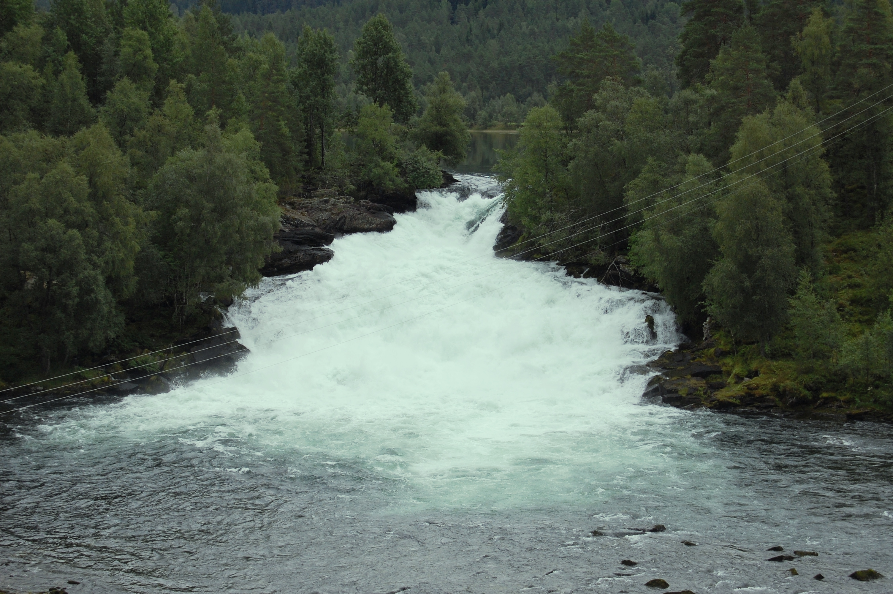 Fossfossen waterfall in Gaular, Sogn og Fjordane